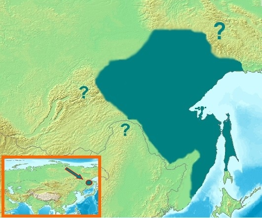 Range Map: Falcipennis falcipennis